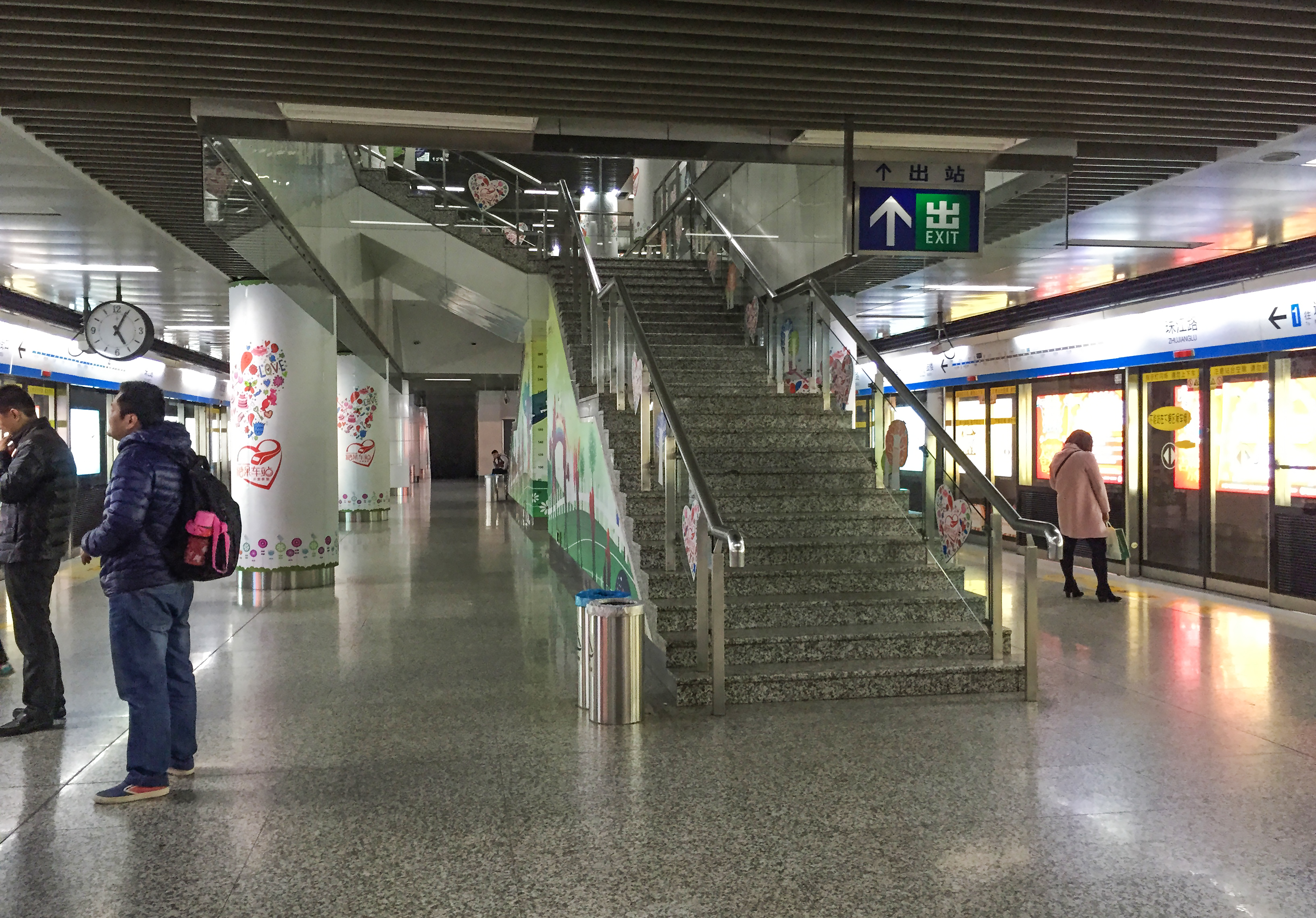 Should have been brighter...